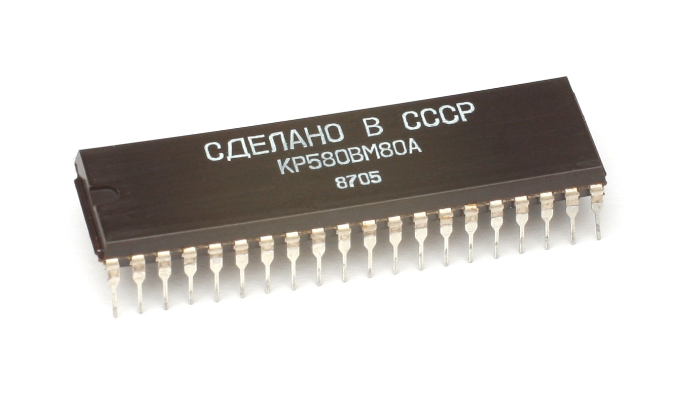 CPU KP580VM80 (= Intel i8080)